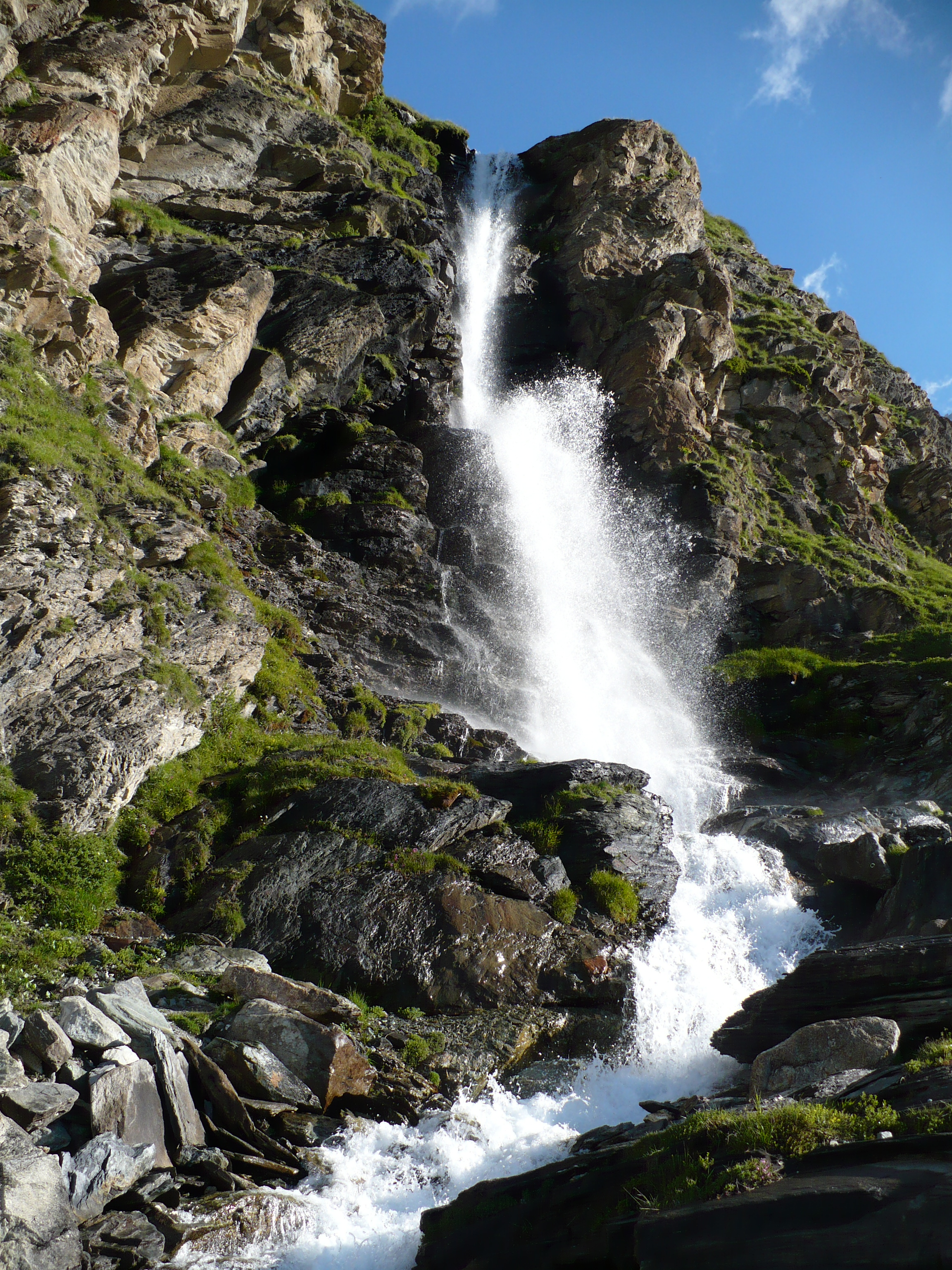 waterfall in Valtournenche - Aosta Valley - Italy